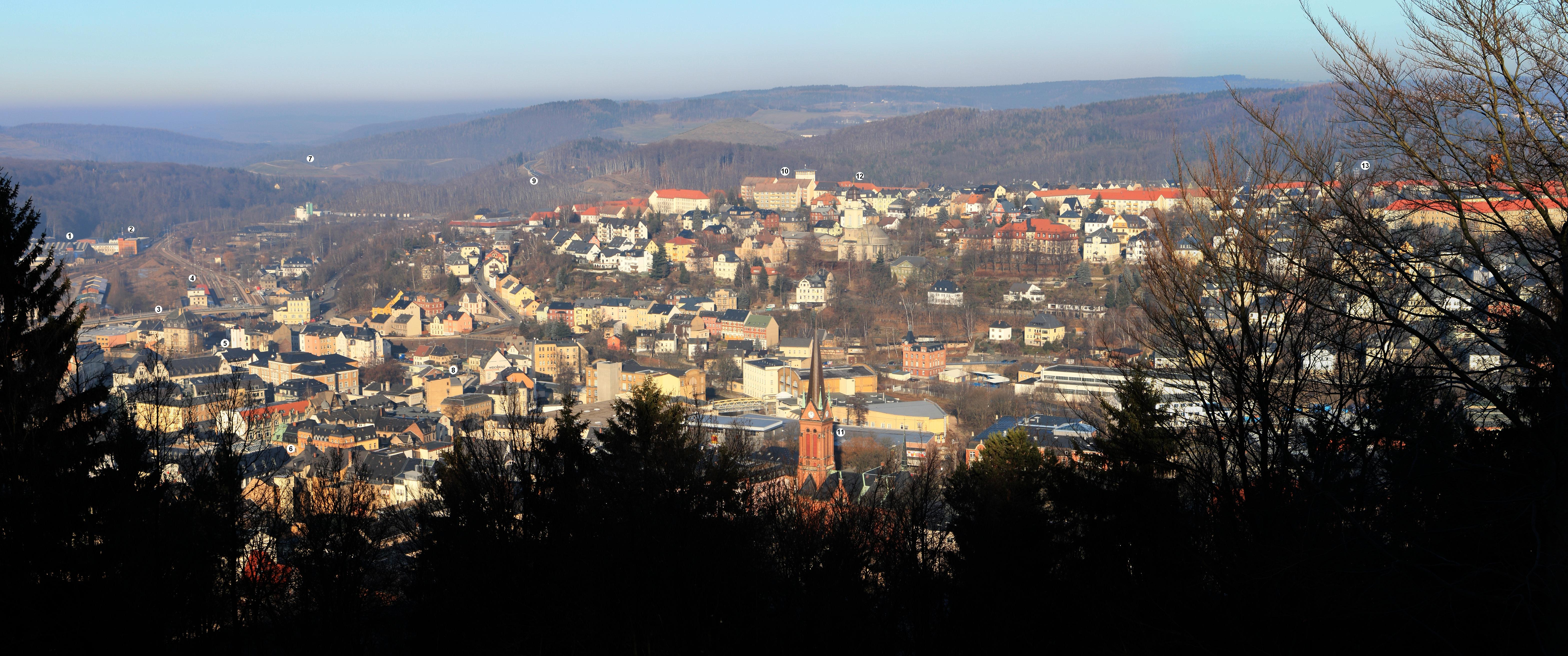 Aue, Sachsen: Panoramic View.